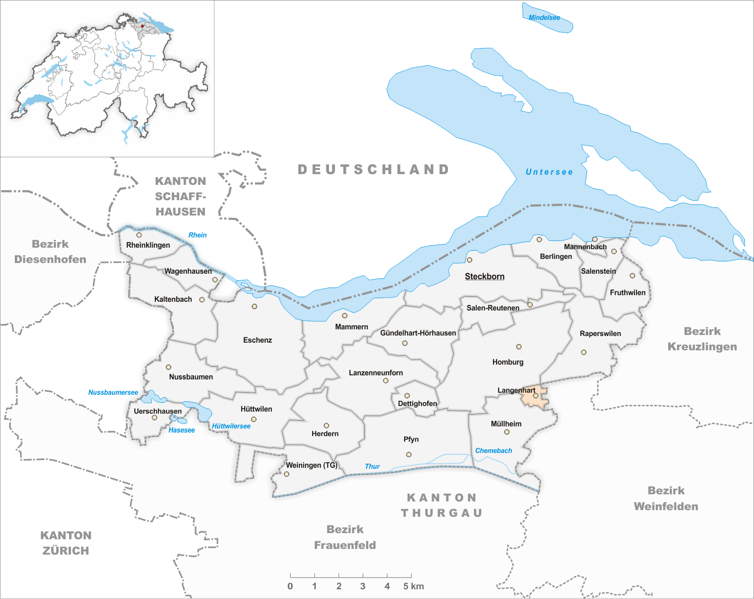 Municipality Langenhart